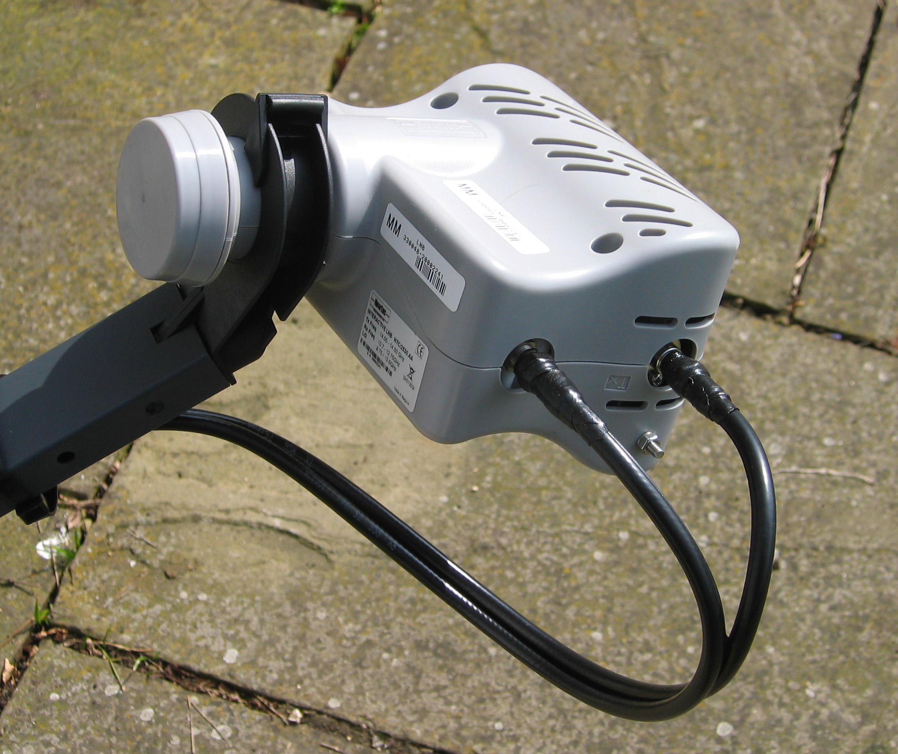 The receive/transmit "iLNB" used or the ASTRA2Connect system